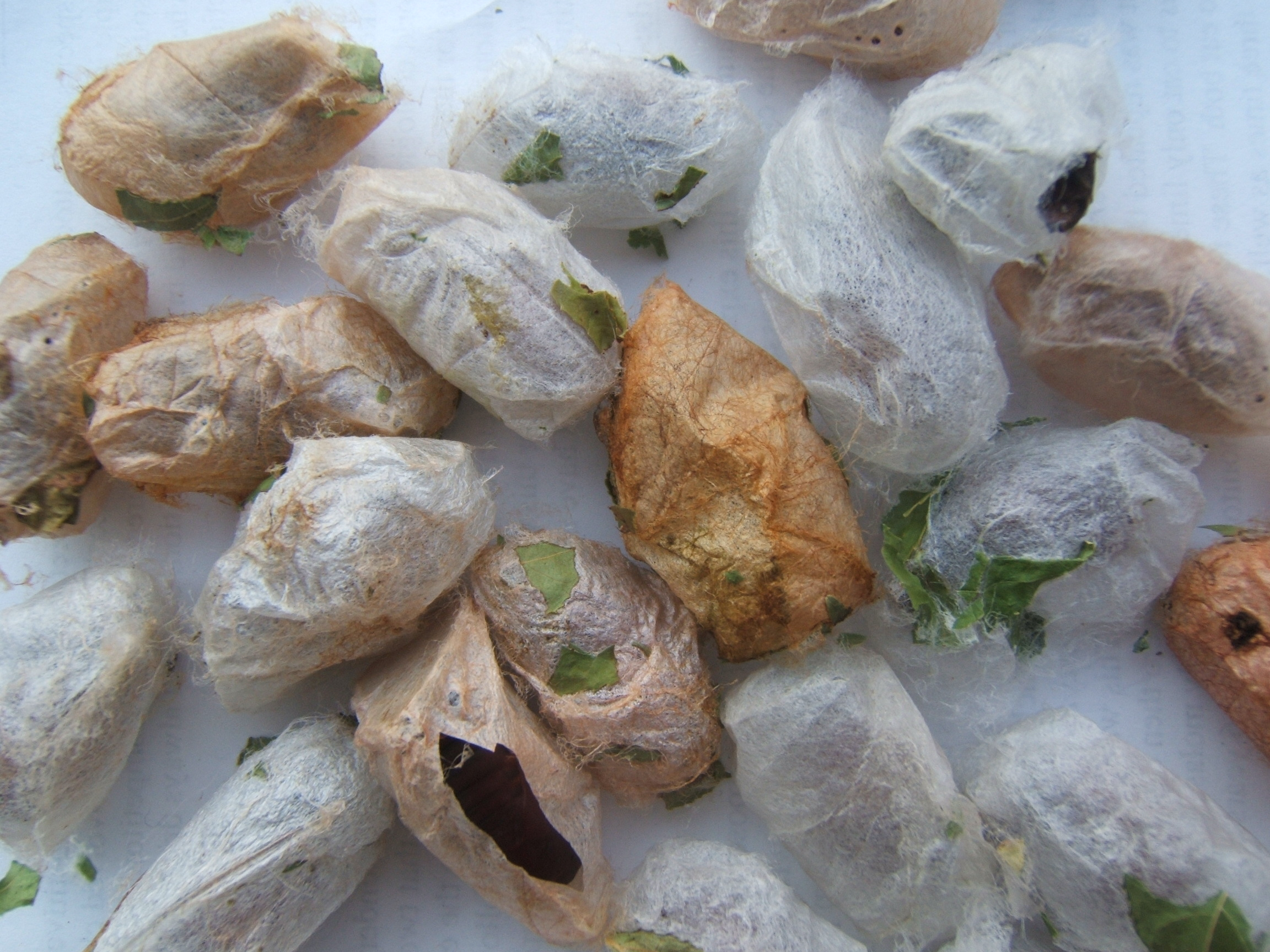 Actias luna cocoons taken by Shawn Hanrahan. Reared on American Sweetgum.